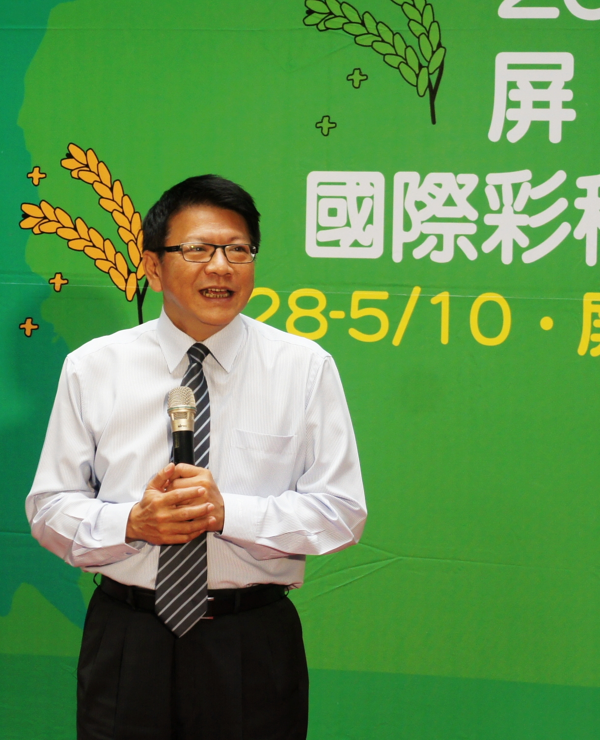 magistrate of Pingtung county, Pan Men-An中文（台灣）: 屏東縣長潘孟安